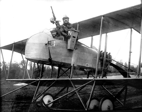 Photo of MF11 WW1 aircraft reco samf4u.jpg